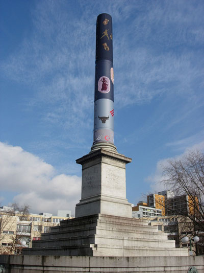 Textile art installation "Peace Column" at Mehringplatz Berlin by Jan Bejsovec